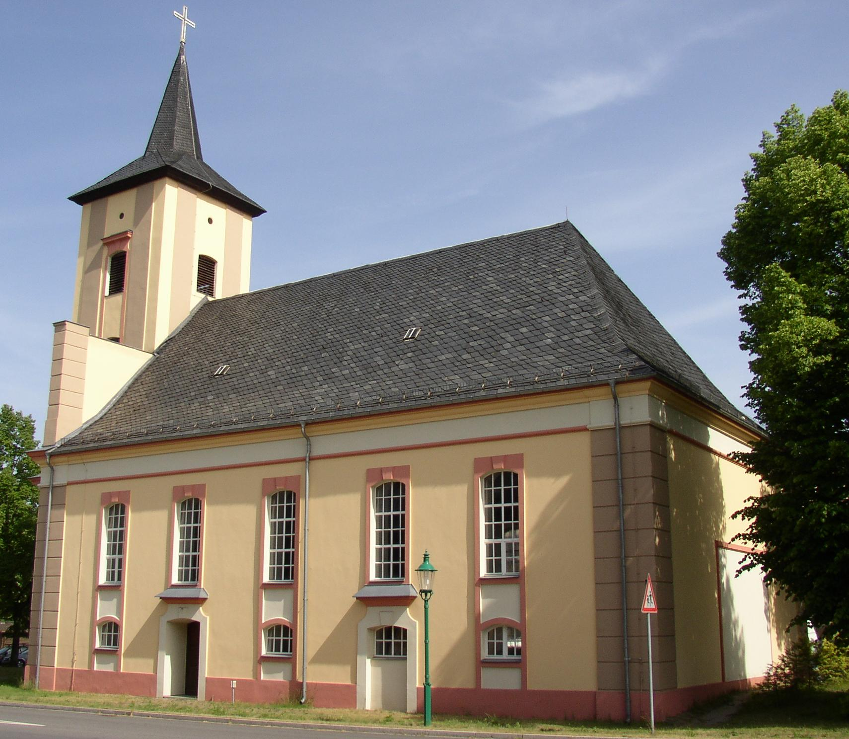 Church in Märkisch Buchholz in Brandenburg, Germany